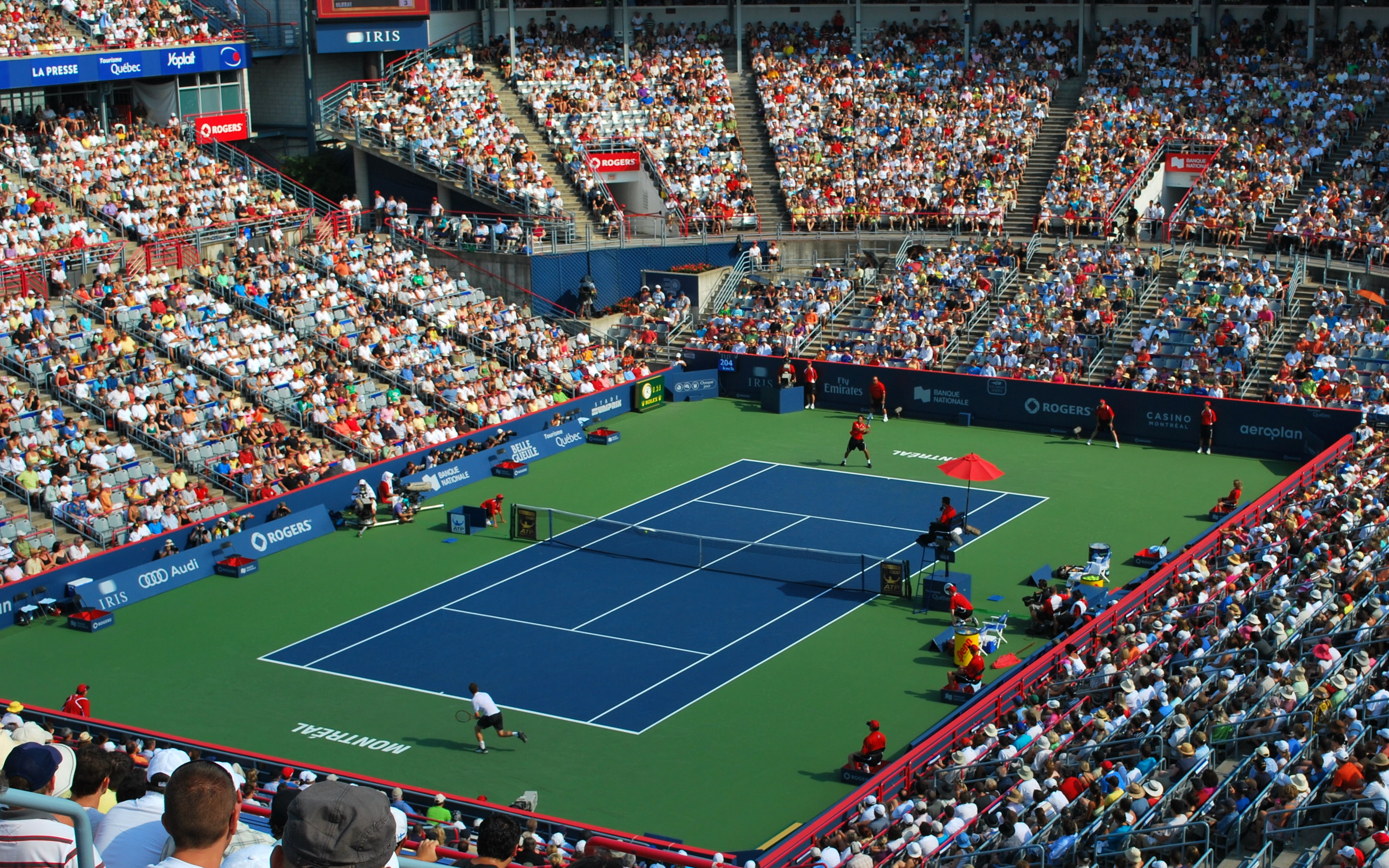 Rogers Cup - Montreal (Uniprix Stadium) Aug 15, 2009. Semifinal: Jo-Wilfried Tsonga - Andy Murray (Winner).